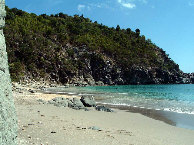 Shell Beach, St. Barts